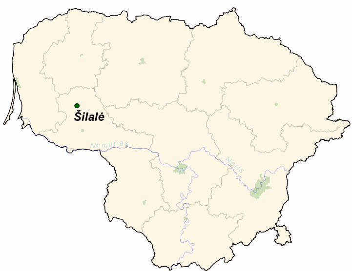 Šilalė on the map of Lithuania